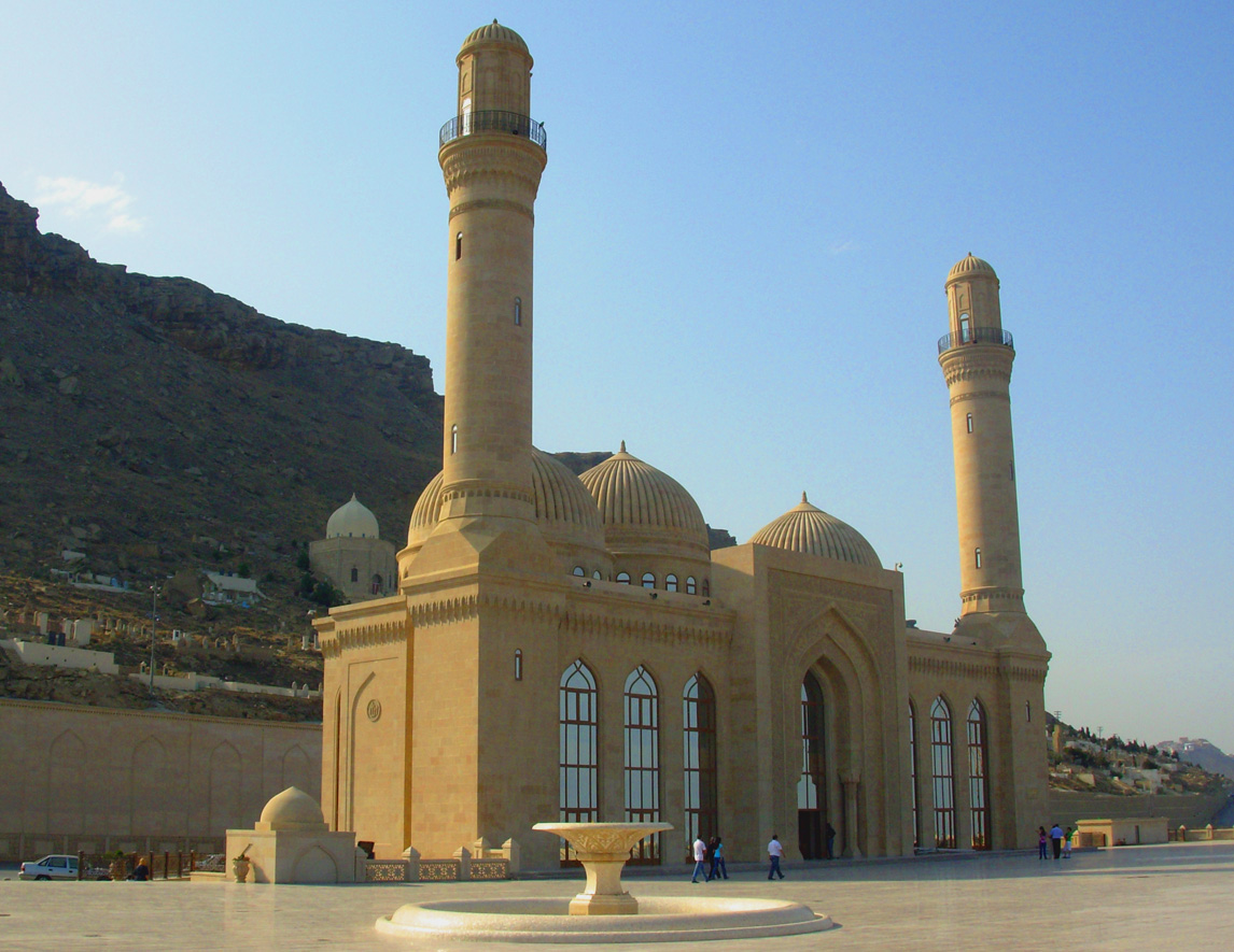 Bibi Heybat Mosque in Baku, Azerbaijan